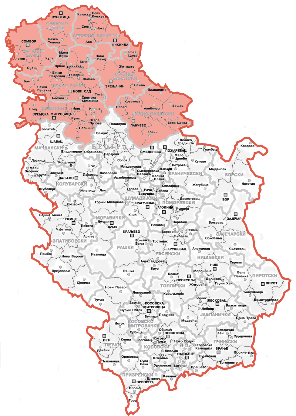 map showing location of Vojvodina within Serbia